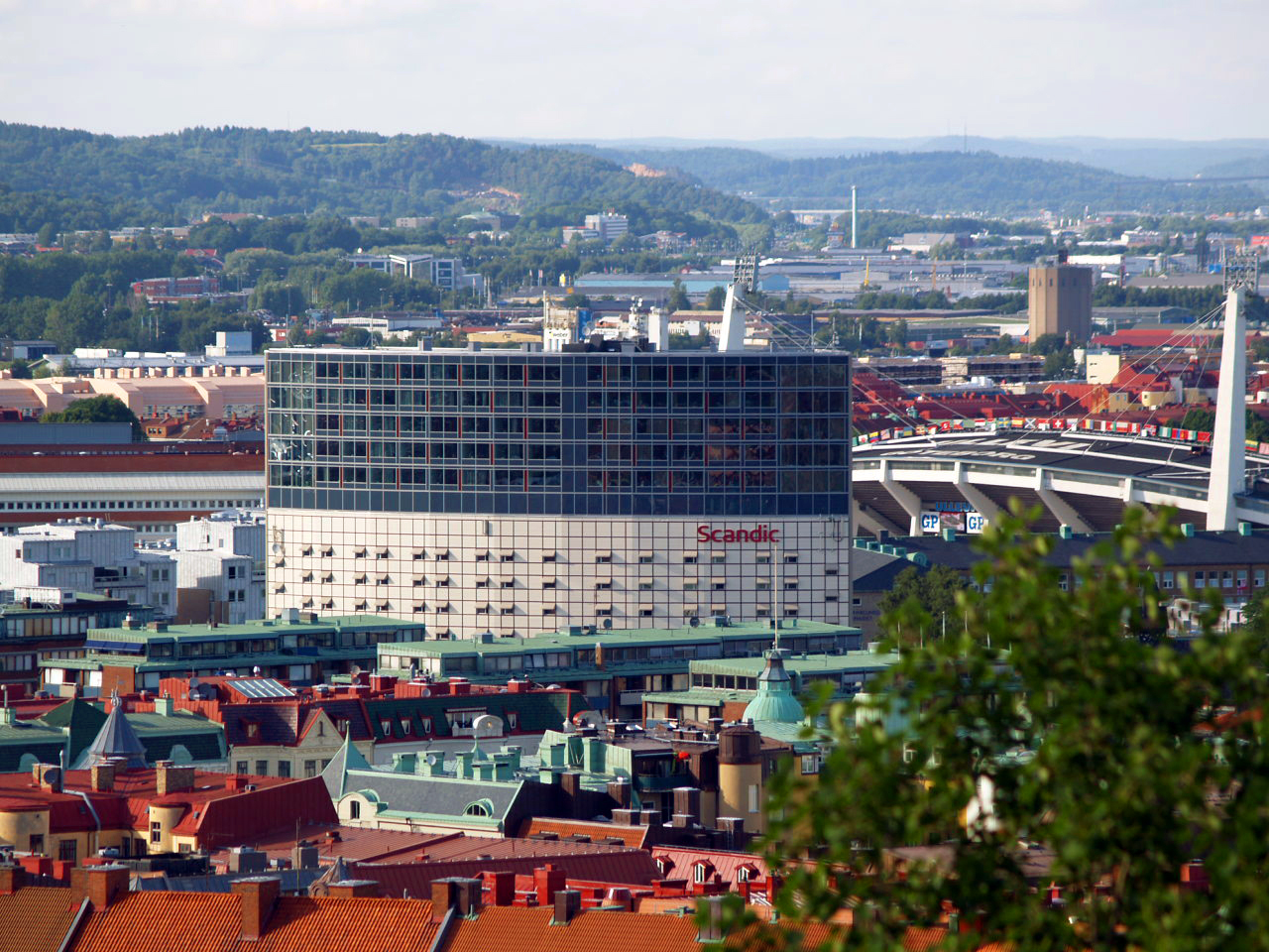 Scandic Hotel Opalen in Gothenburg, Sweden.